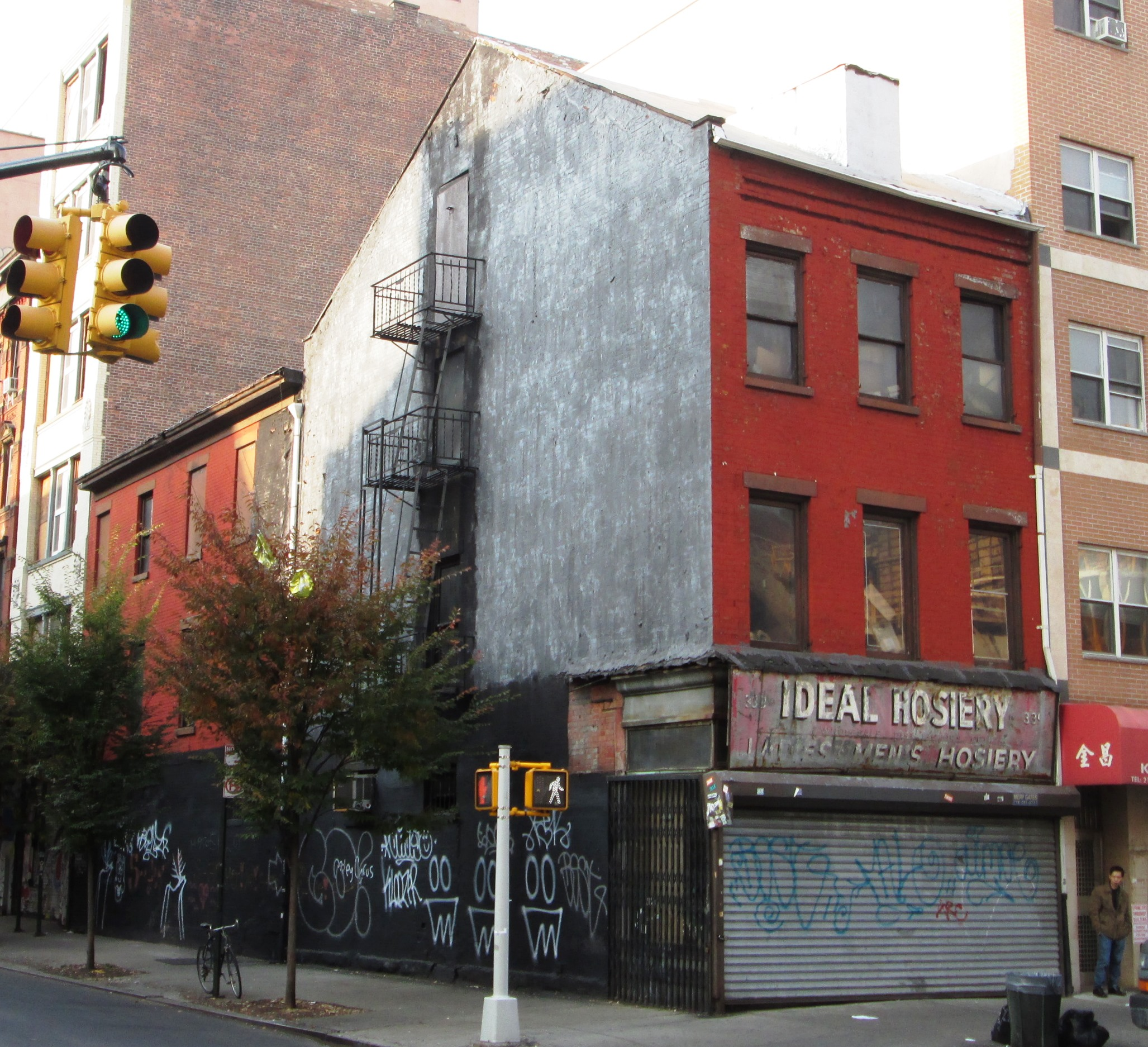 339 Grand Street at the corner of Ludlow Street in the Lower East Side neighborhood of Manhattan, New York City was completed in 1833 in the Federal style as one of five row houses constructed by John Jacob Astor. The rear addition on Ludlow Street was built c.1855. The house was desiognated a NYC landmark in 2013. (Source: NYCLPC press release)